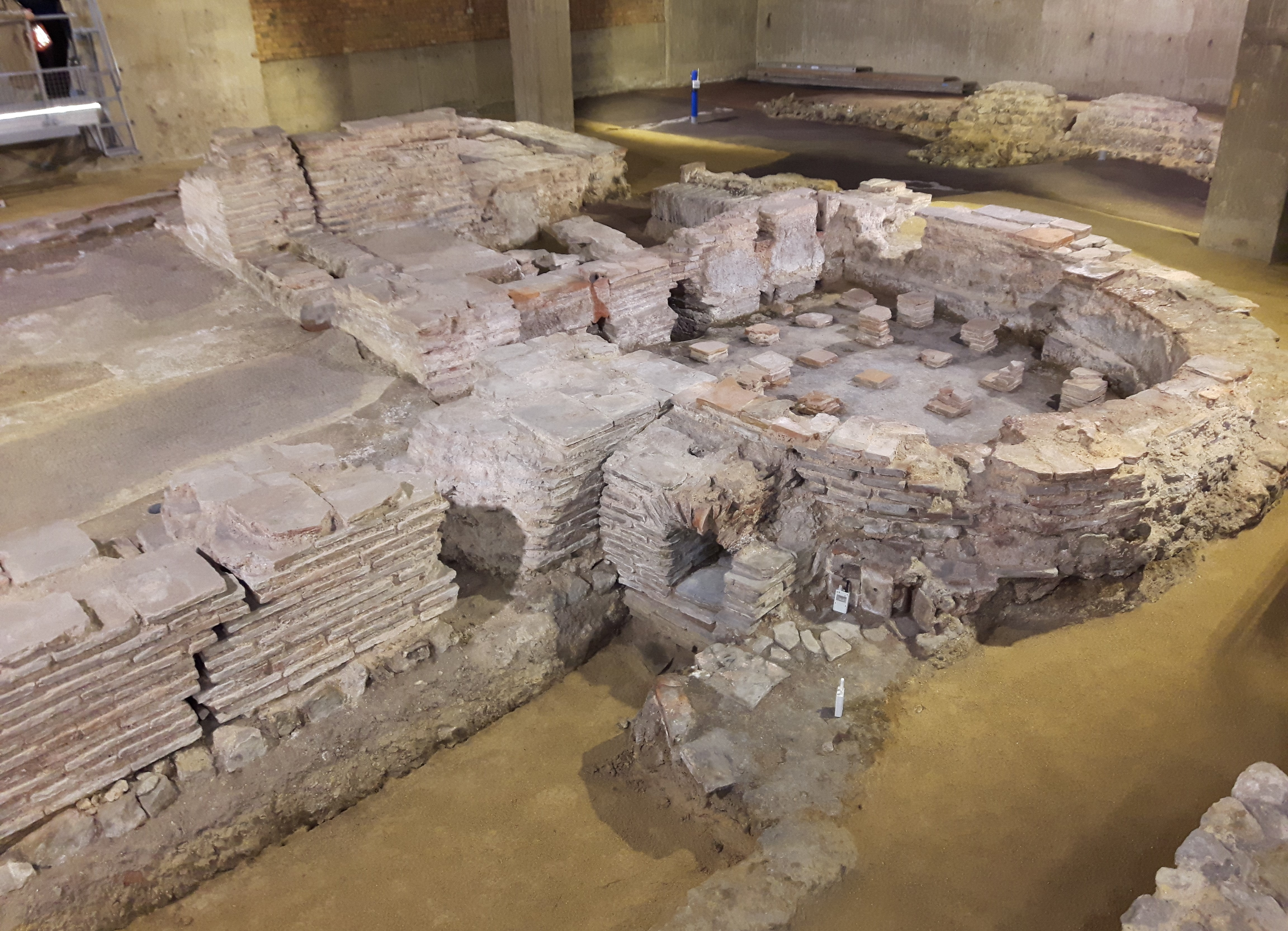 Billingsgate Bath House, 23 September 2018 (13)